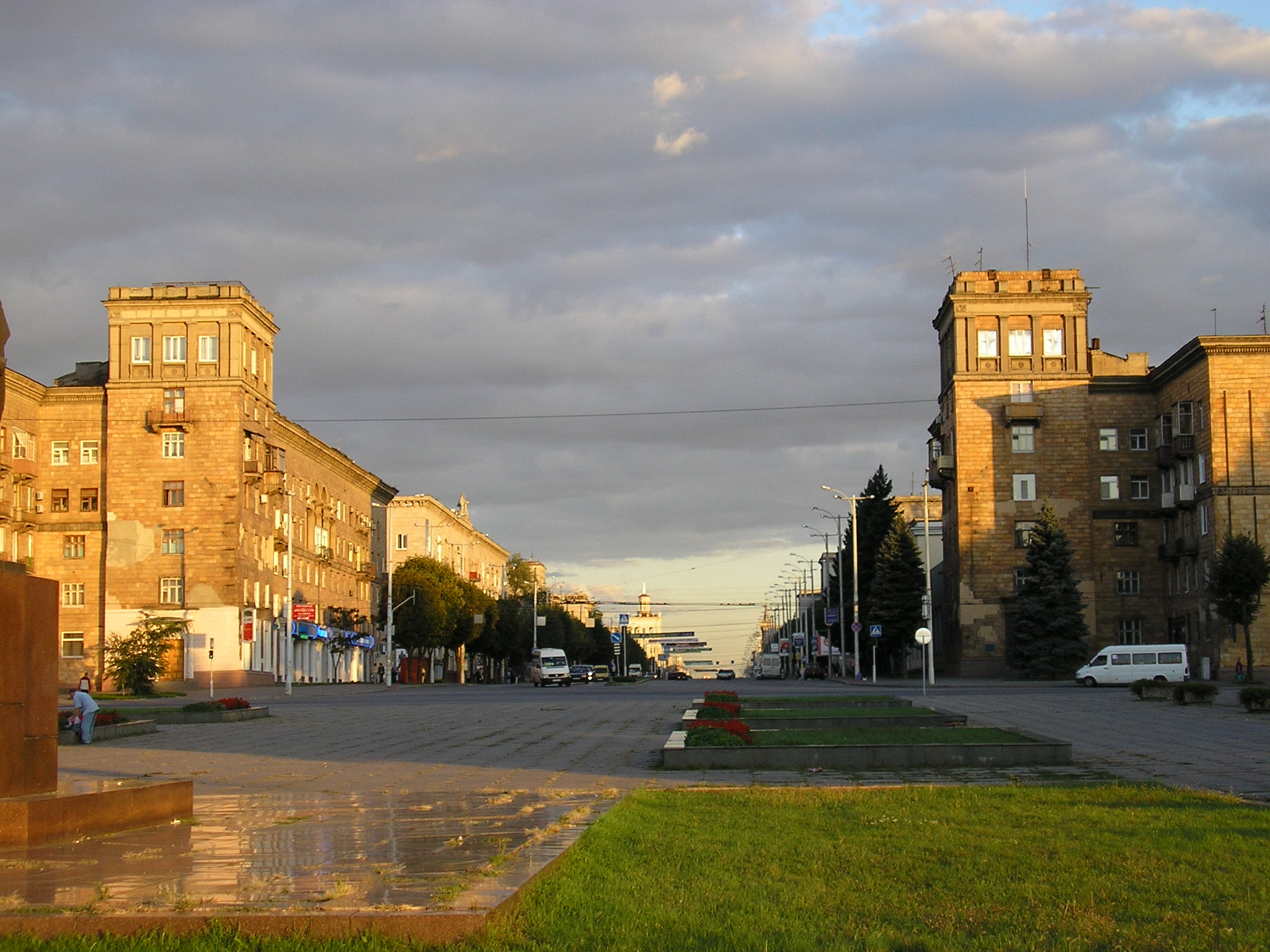 Zaporizhia, Lenin Prospect as seen from Lenin Square